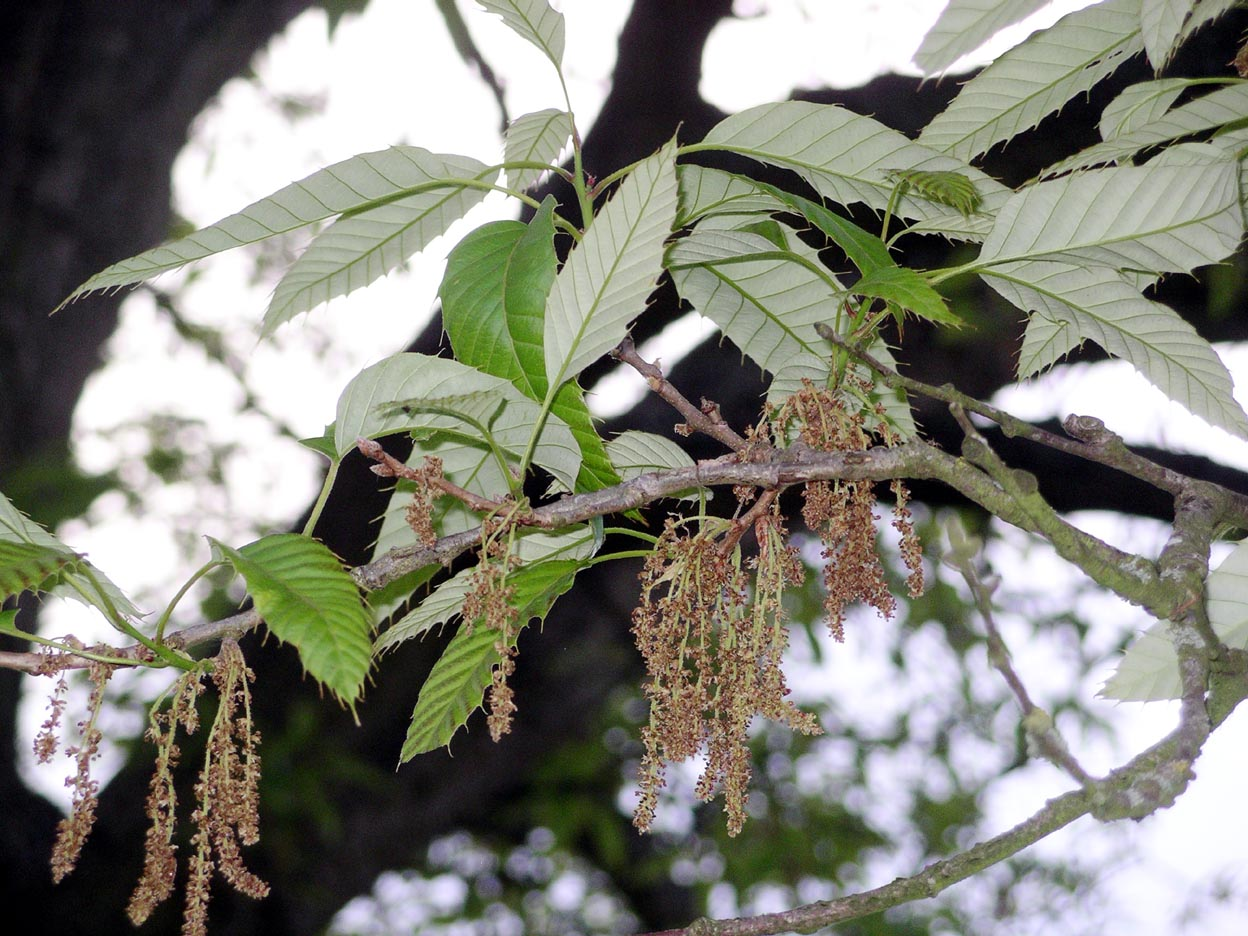 Folkiage and flowers of Chinese cork oak (Quercus variabilis) at Tortworth Court